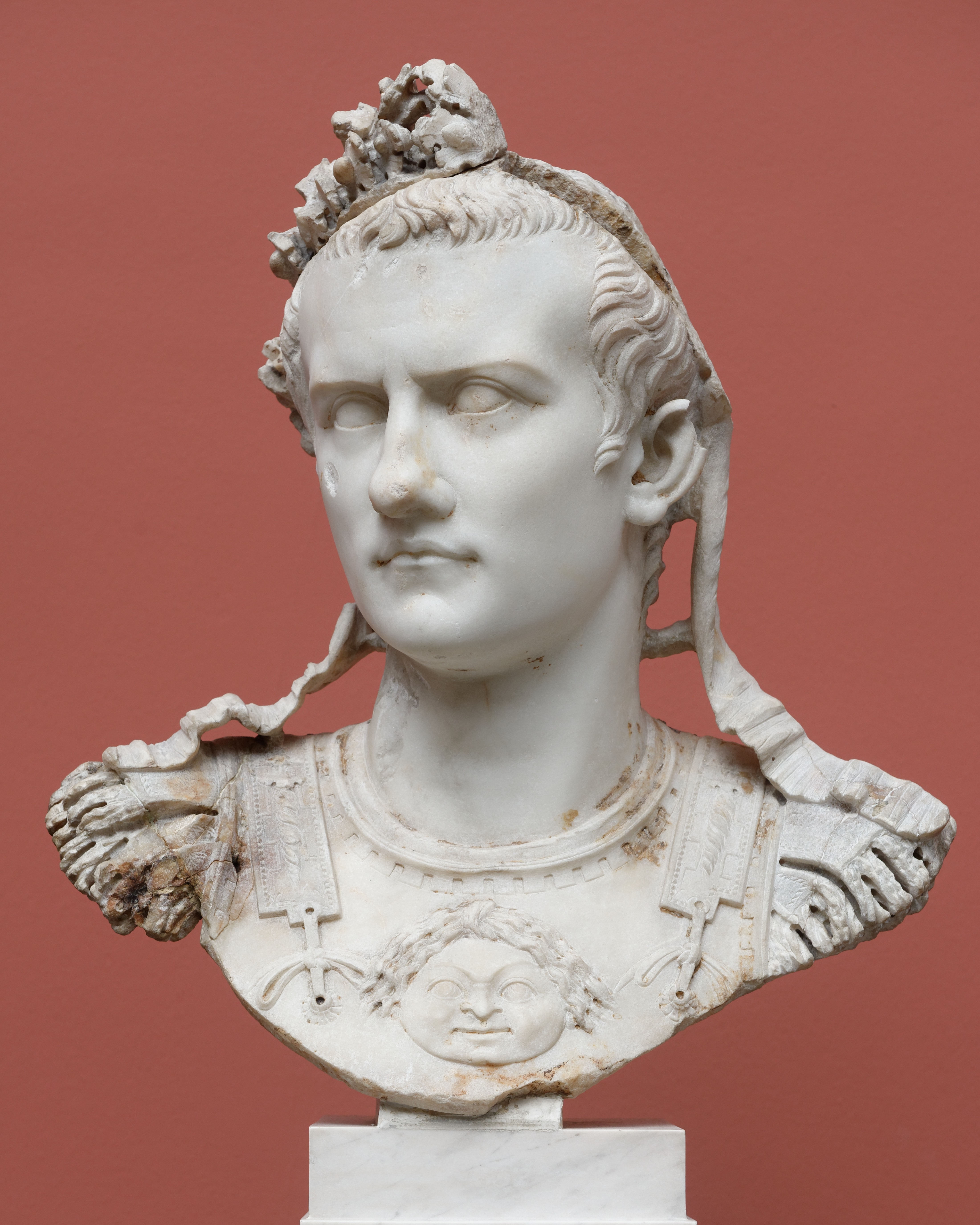 Caligula wearing a cuirass. Roman artwork, found in Rome.